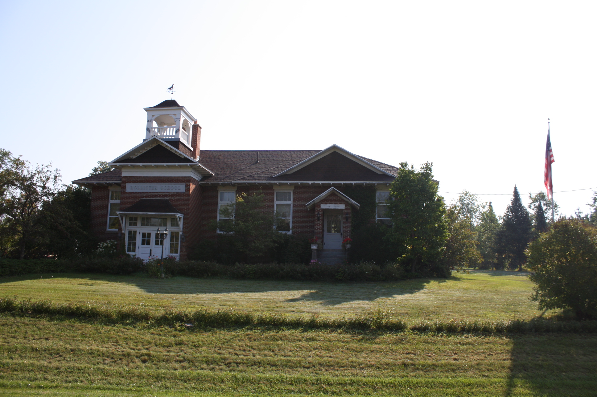 The school in Hollister, Wisconsin along Wisconsin Highway 55.